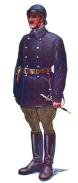 Polish military uniform. Sergeant of tank brigade 1935.